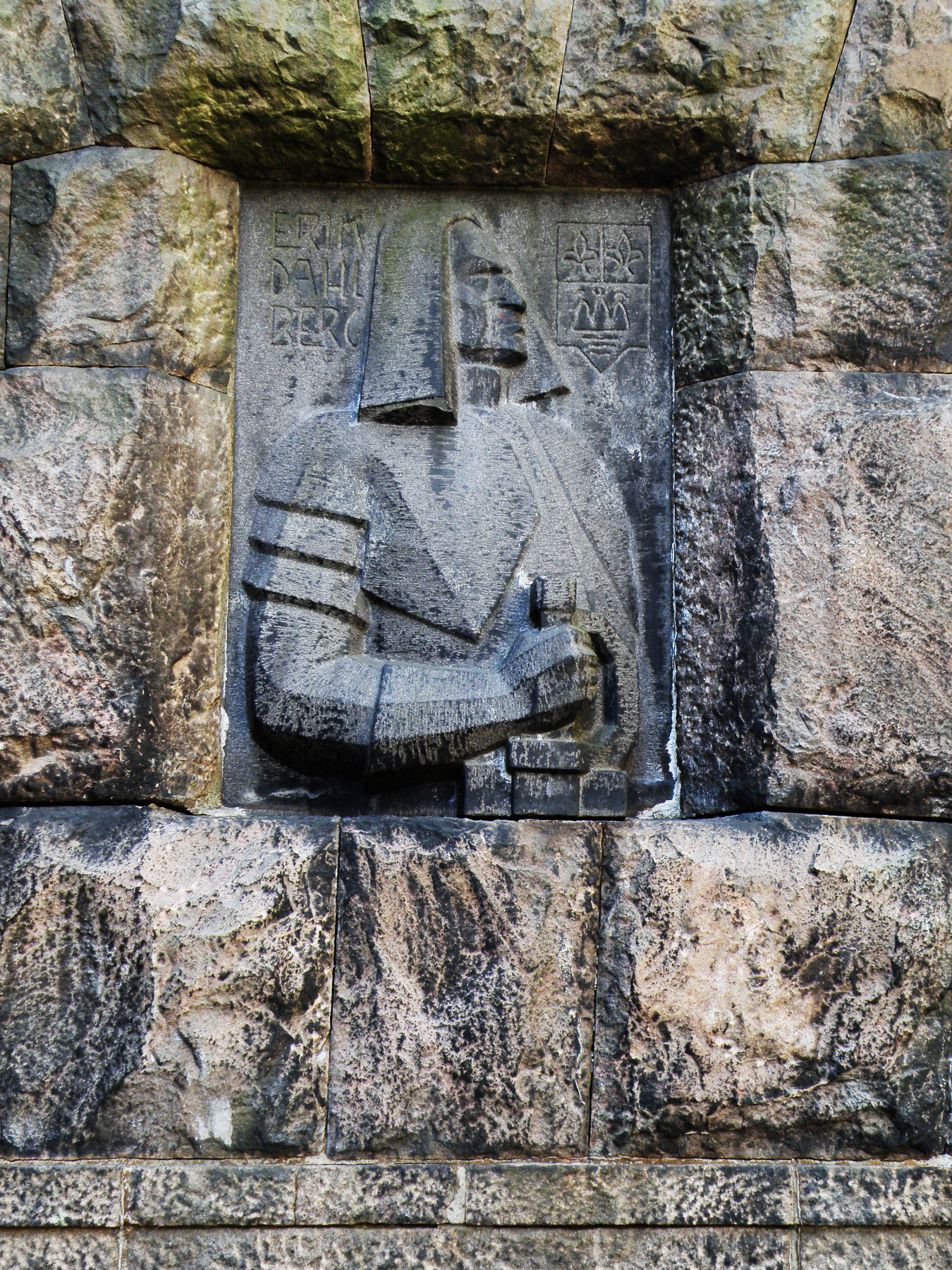 Erik Dahlberg, Embedded granite relief by Ninnan Santesson, 1916. Erik Dahlberg stairs. Gothenburg Sweden.